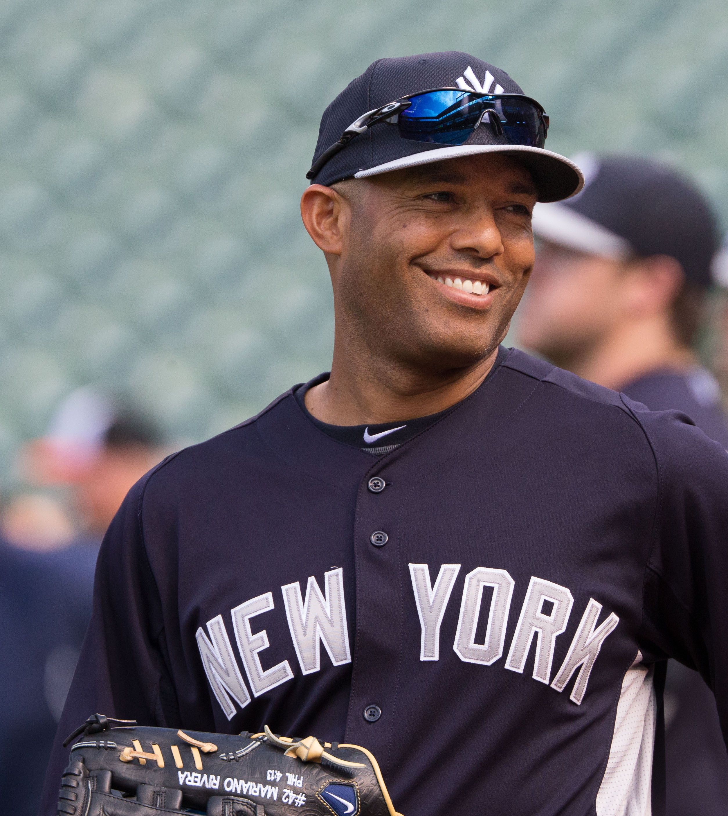 New York Yankees pitcher Mariano Rivera before a game against the Baltimore Orioles at Oriole Park at Camden Yards in Baltimore, Maryland, on May 20, 2013